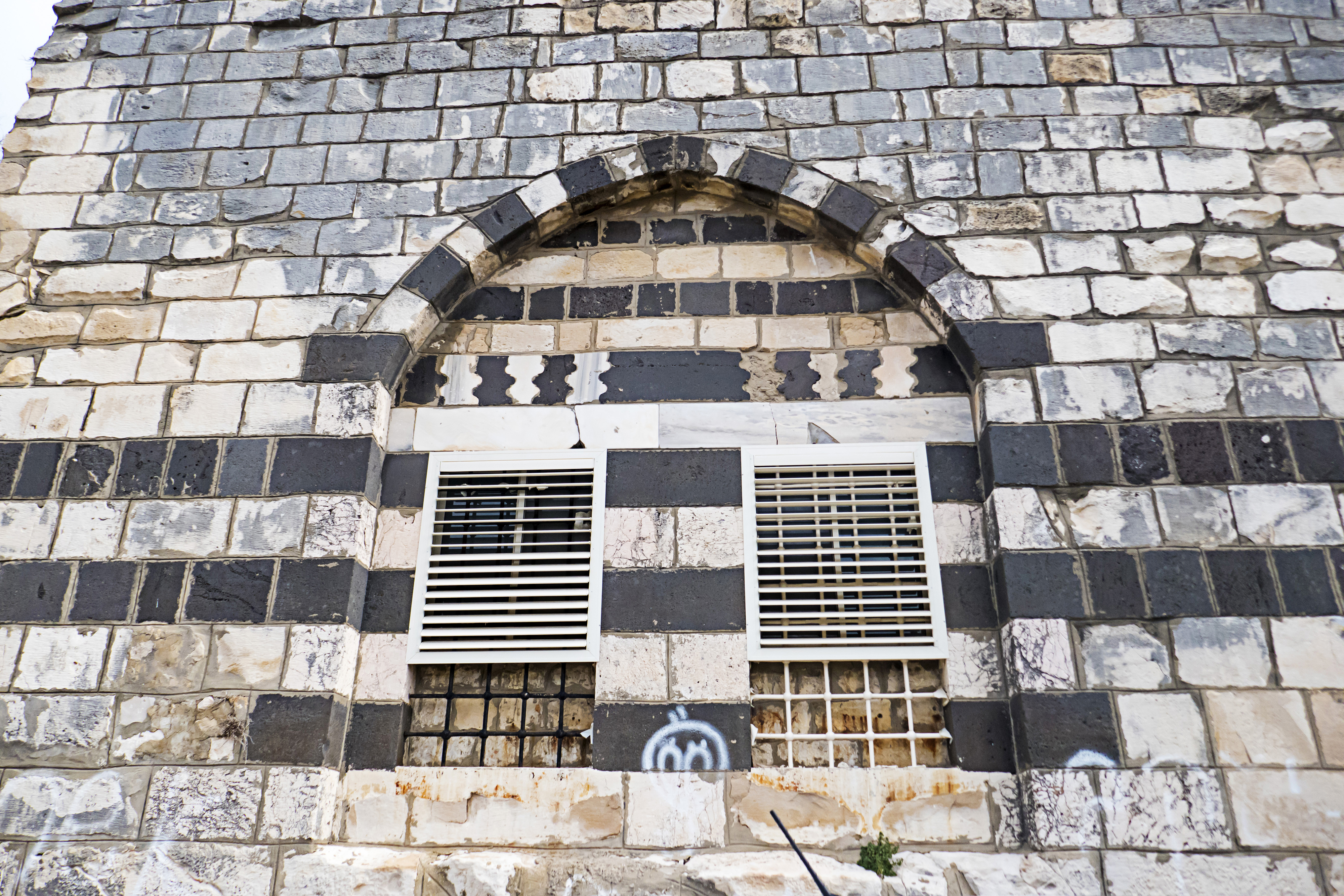 Old Safed, the Mamluk Mausoleum